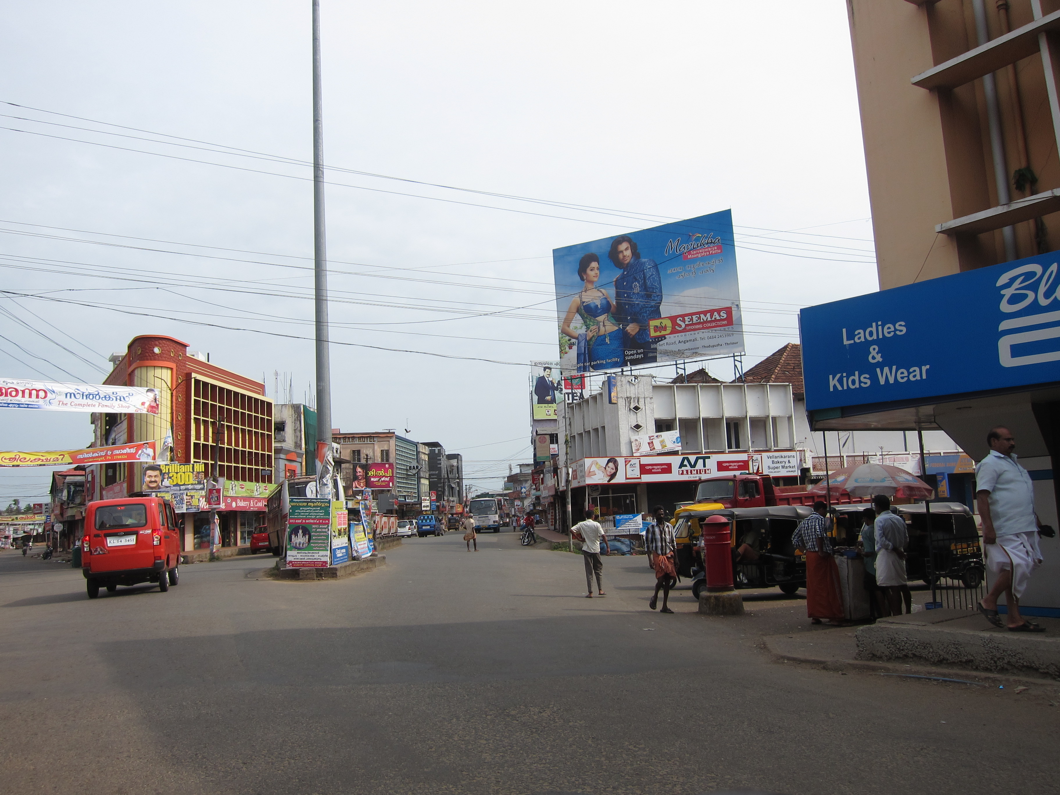 Chalakudy North - ചാലക്കുടി നോർത്ത് Thrissur - ത്രിശ്ശൂർ